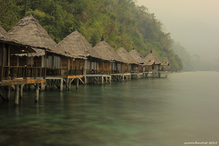 Bungalow di atas air di pantai Ora, Maluku